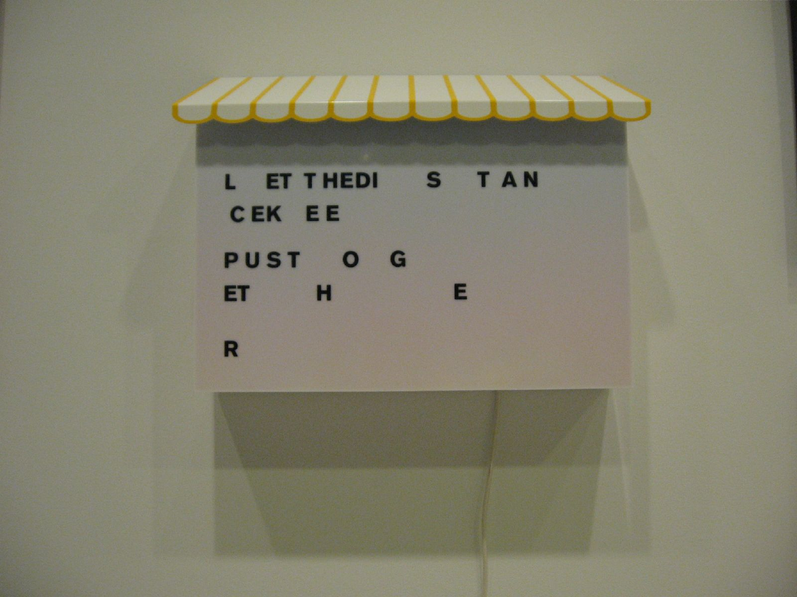 Object of Friedrich Kunath at the Life on Mars Exibition